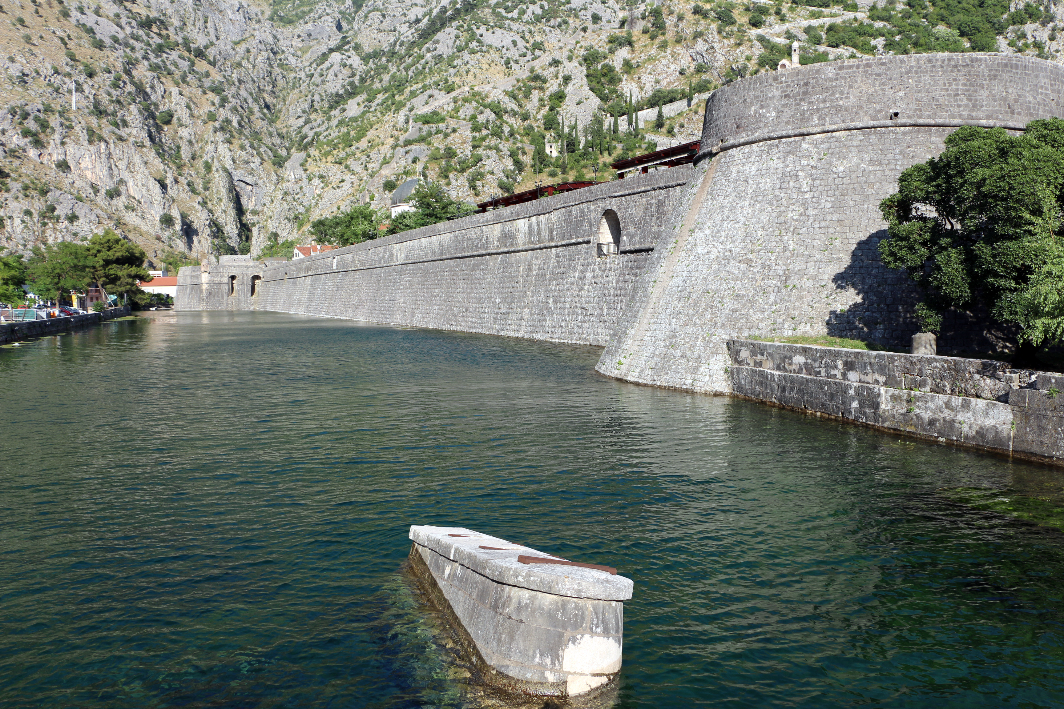 Kotor city wall